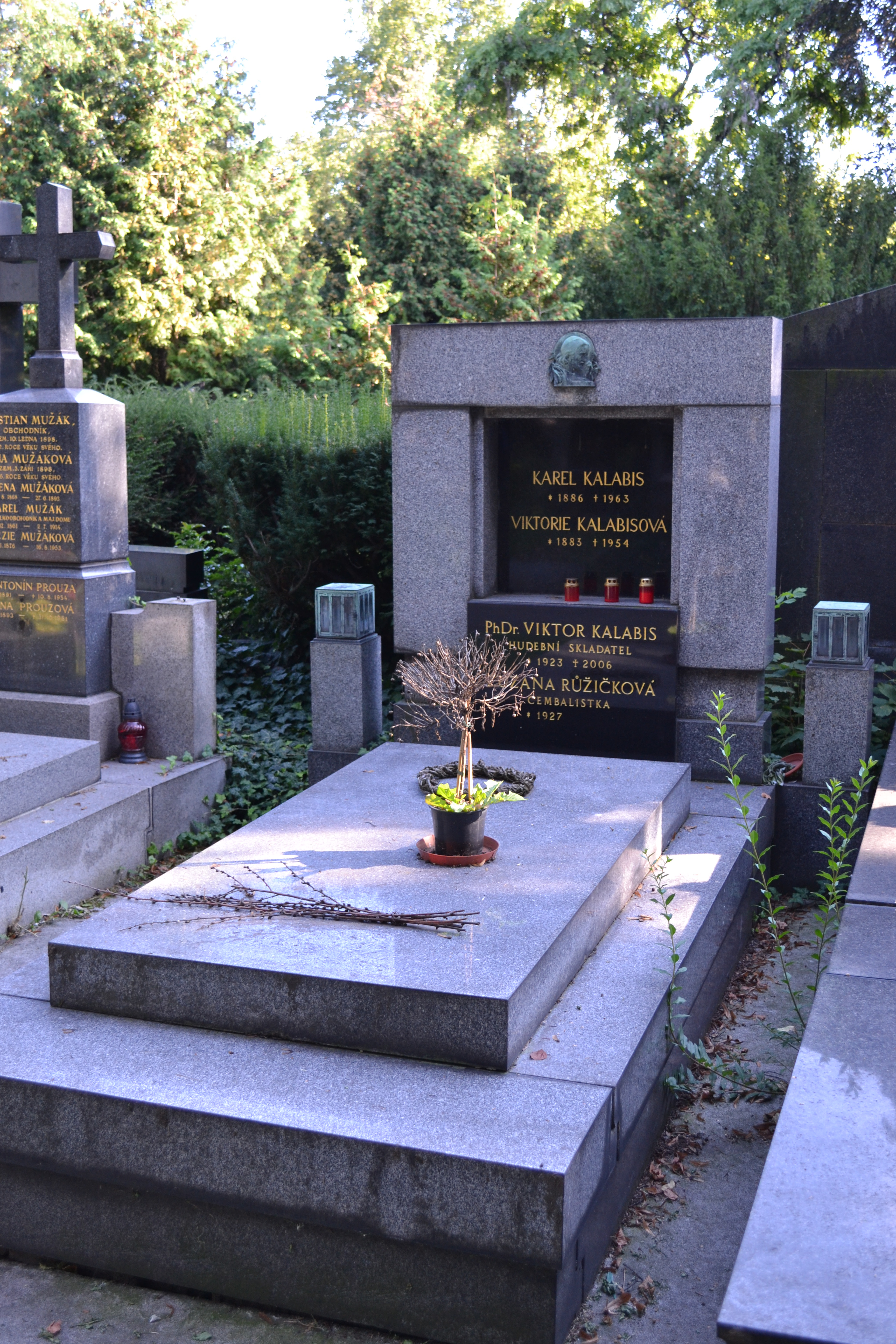 Tomb of Viktor Kalabis, Czech composer, at Vinohrady Cemetery in PragueCorsu: Hrob Viktora Kalabise, hudebního skladatele na Vinohradském hřbitově v Praze